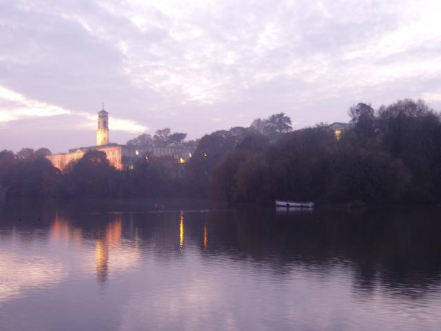 Trent Building and Highlands Park on University Park Campus, University of Nottingham